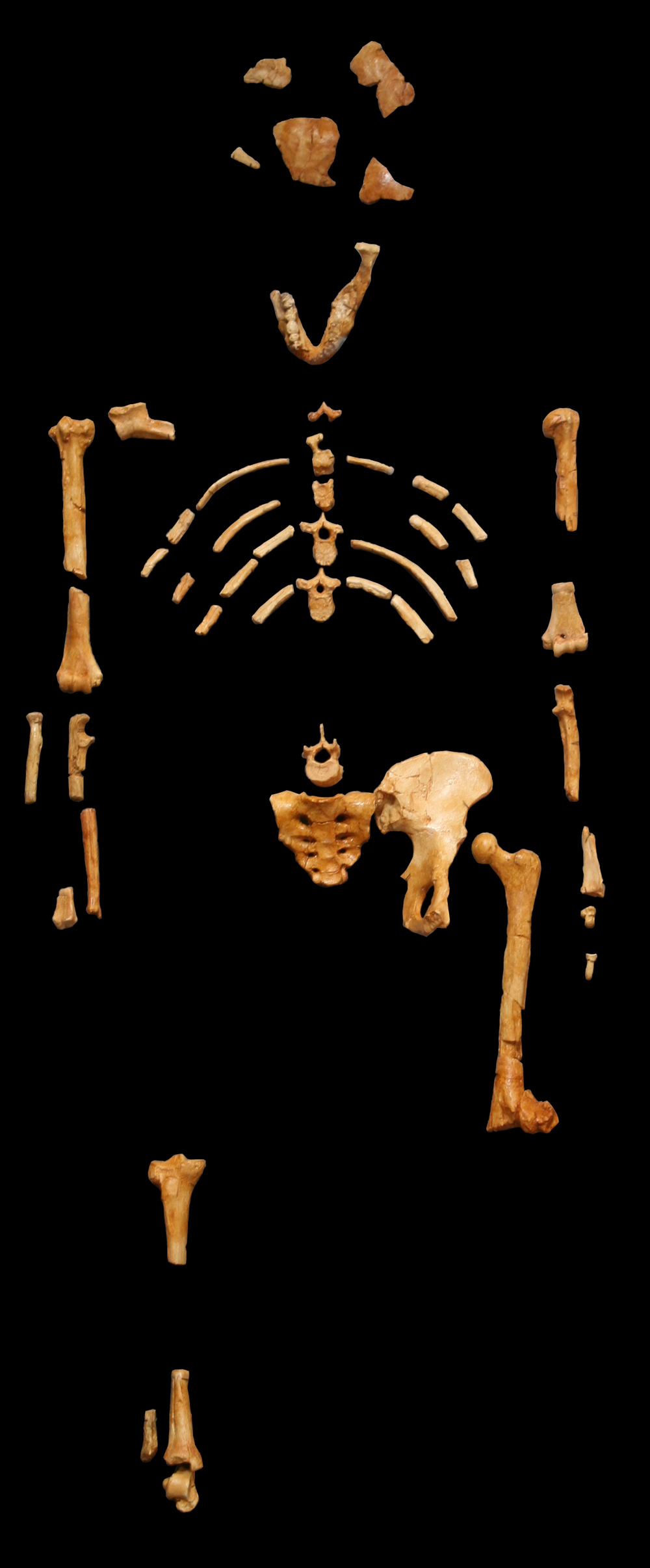 « Lucy » skeleton (AL 288-1) Australopithecus afarensis, cast from Museum national d'histoire naturelle, Paris